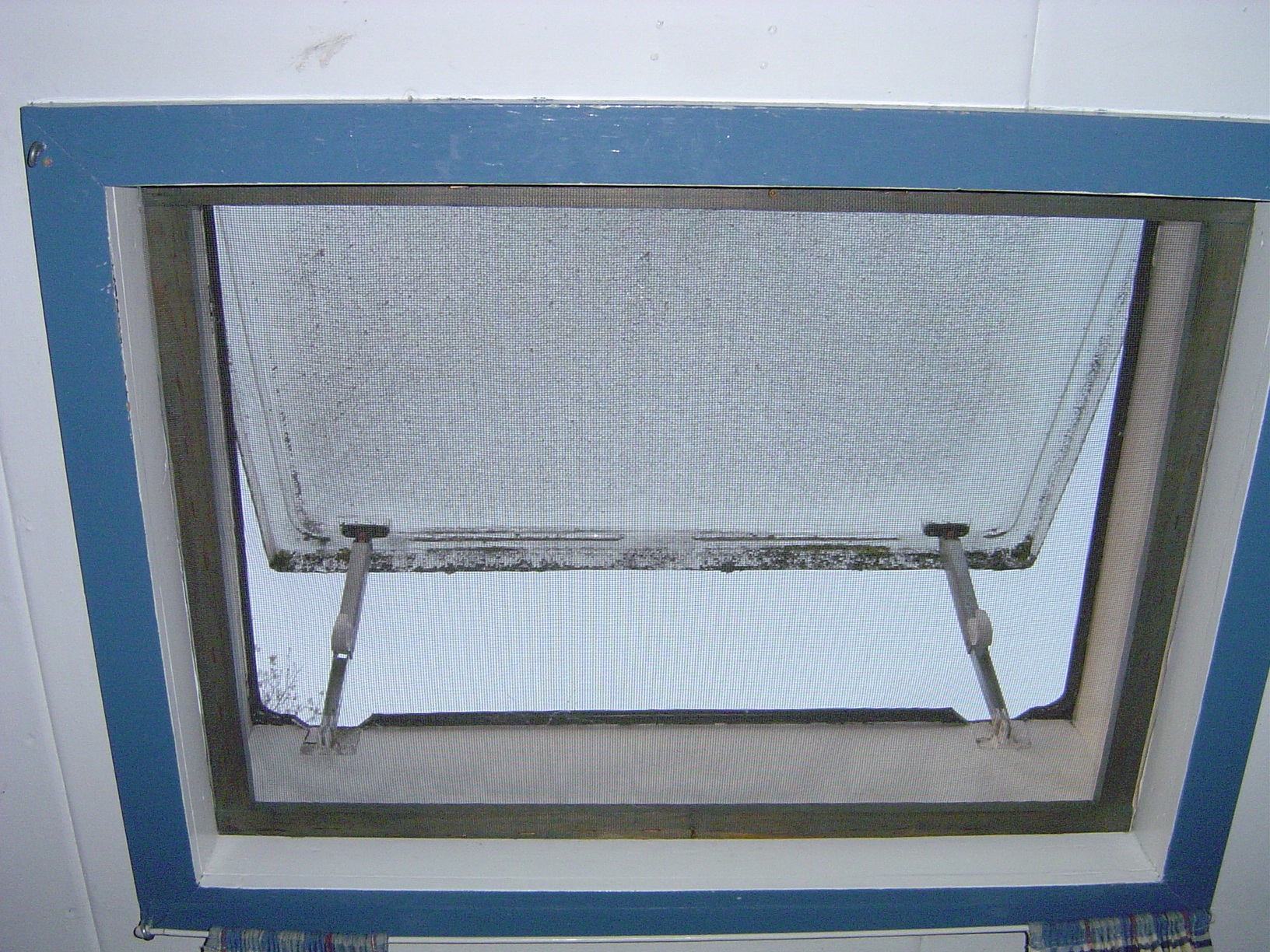 Sloped window with mesh window screen.